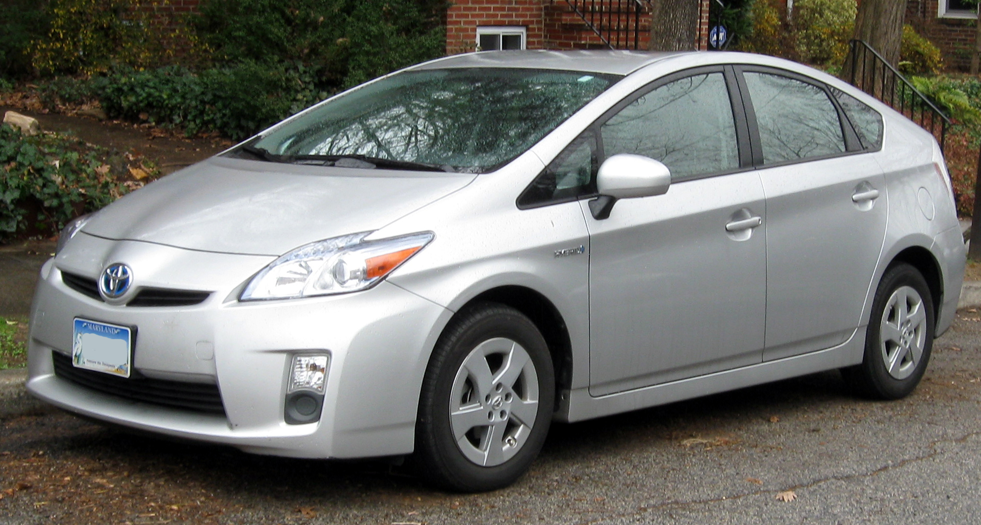 2010-2011 Toyota Prius photographed in Washington, D.C., USA.